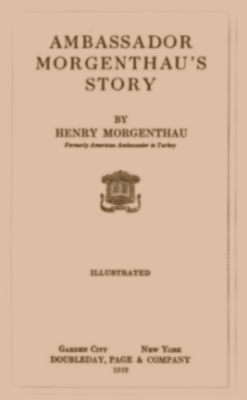 The cover of the book Ambassador Morgenthau's Story